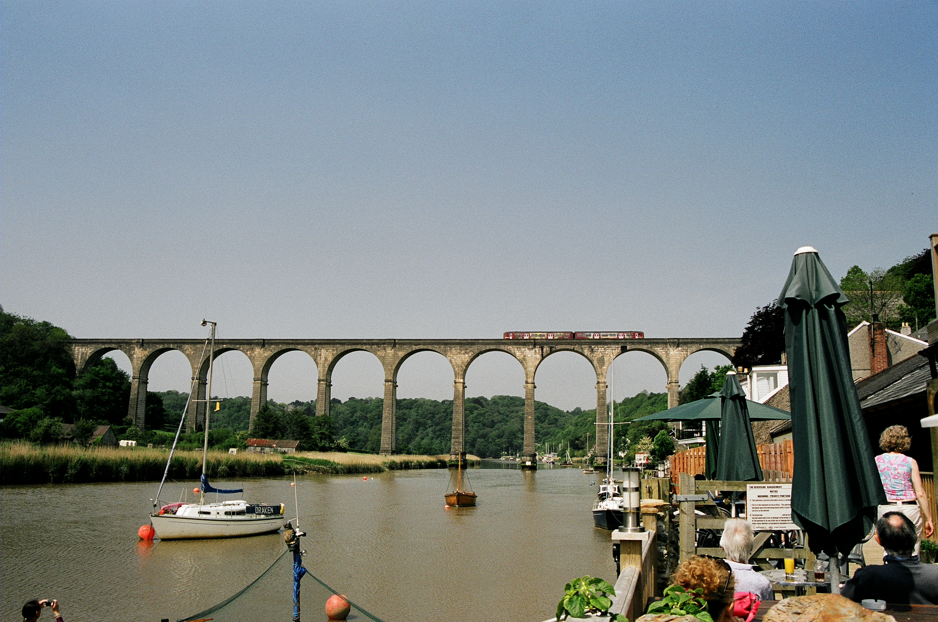 Calstock Viaduct, viewed from the village. A Wessex Trains Class 150 is crossing it.